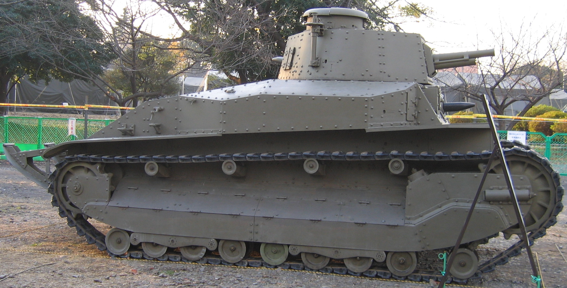 Right view of a Type 89 at the Sinbudai Old Weapon Museum, Camp Asaka, Japan